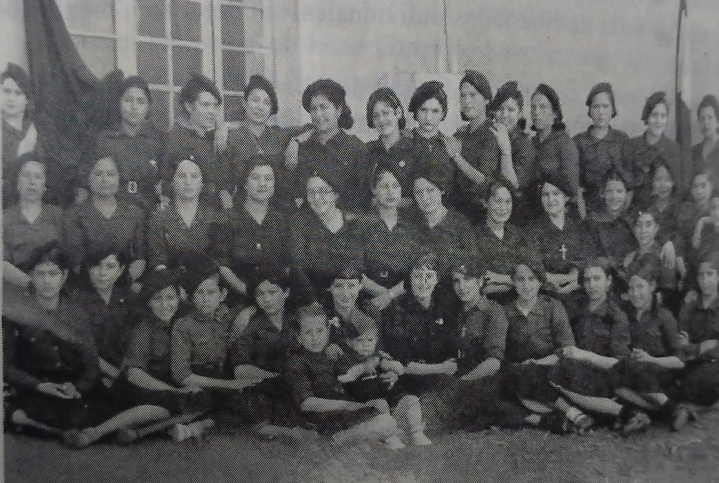 Las camaradas de la Sección Femenina de Falange de Santa Marta. Foto cedide por Inés Cabellero de León. 1936.